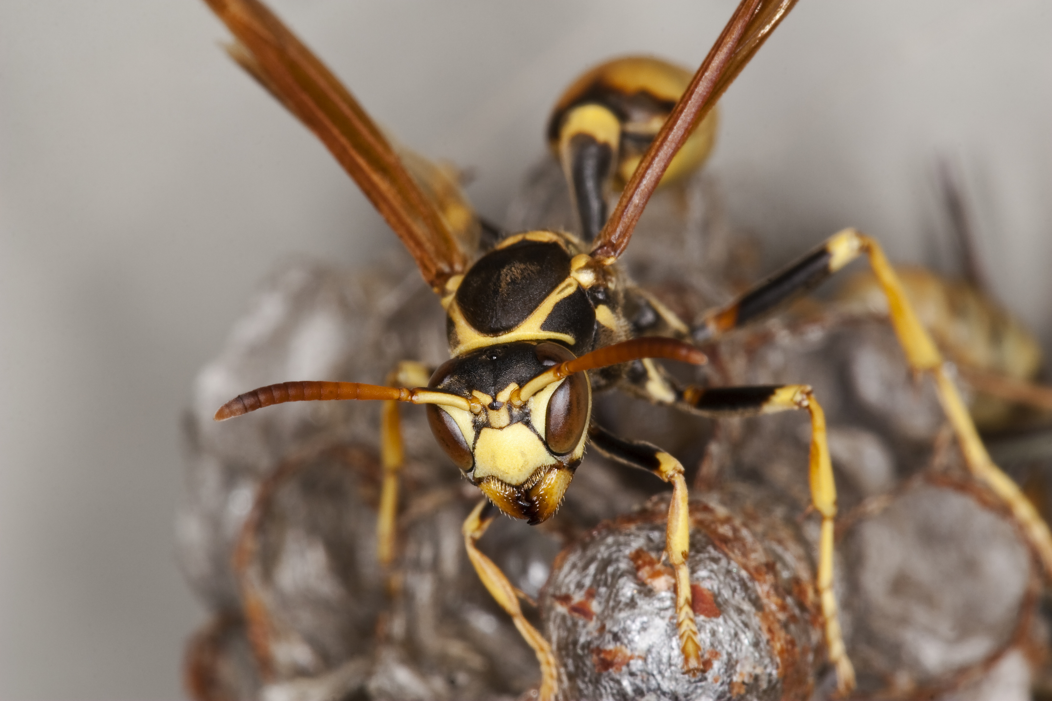 Close up picture of the head of a Paper Wasp (Mischocyttarus Flavitarsis)